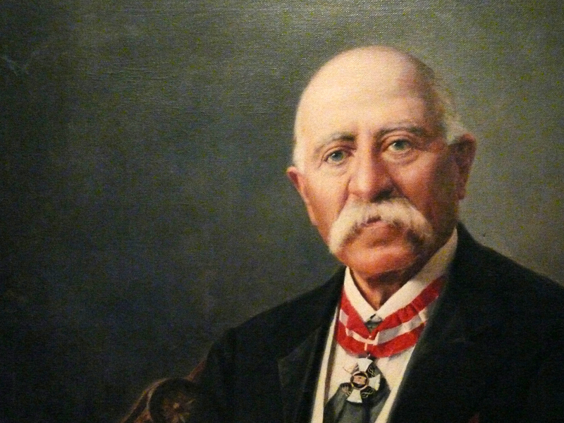 Paolo Soprani, portrait; Soprani was a famous maker of accordions